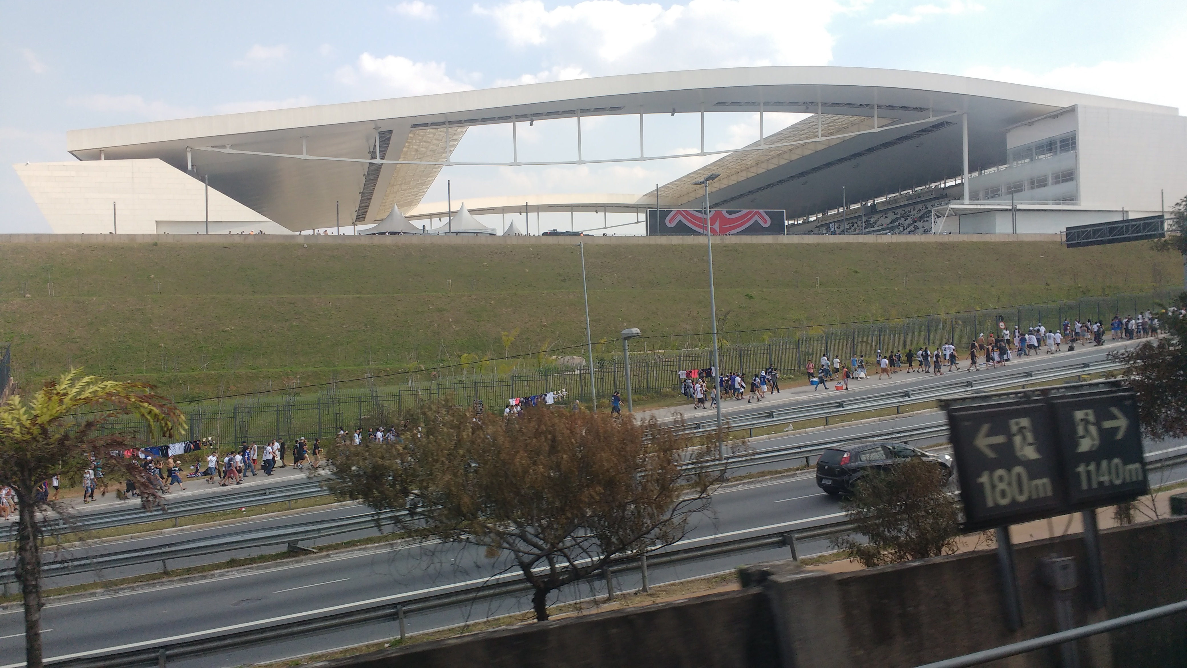 Arena Corinthians, view from inside the Subway